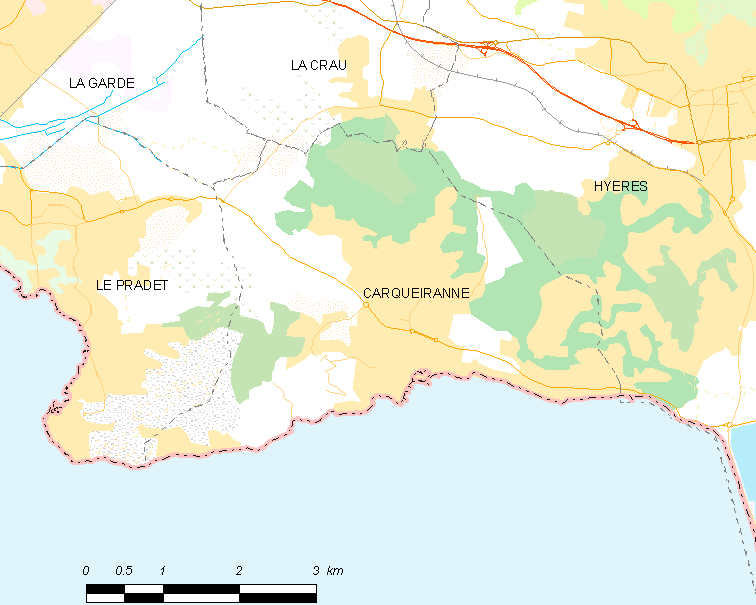 Map of French municipality Carqueiranne